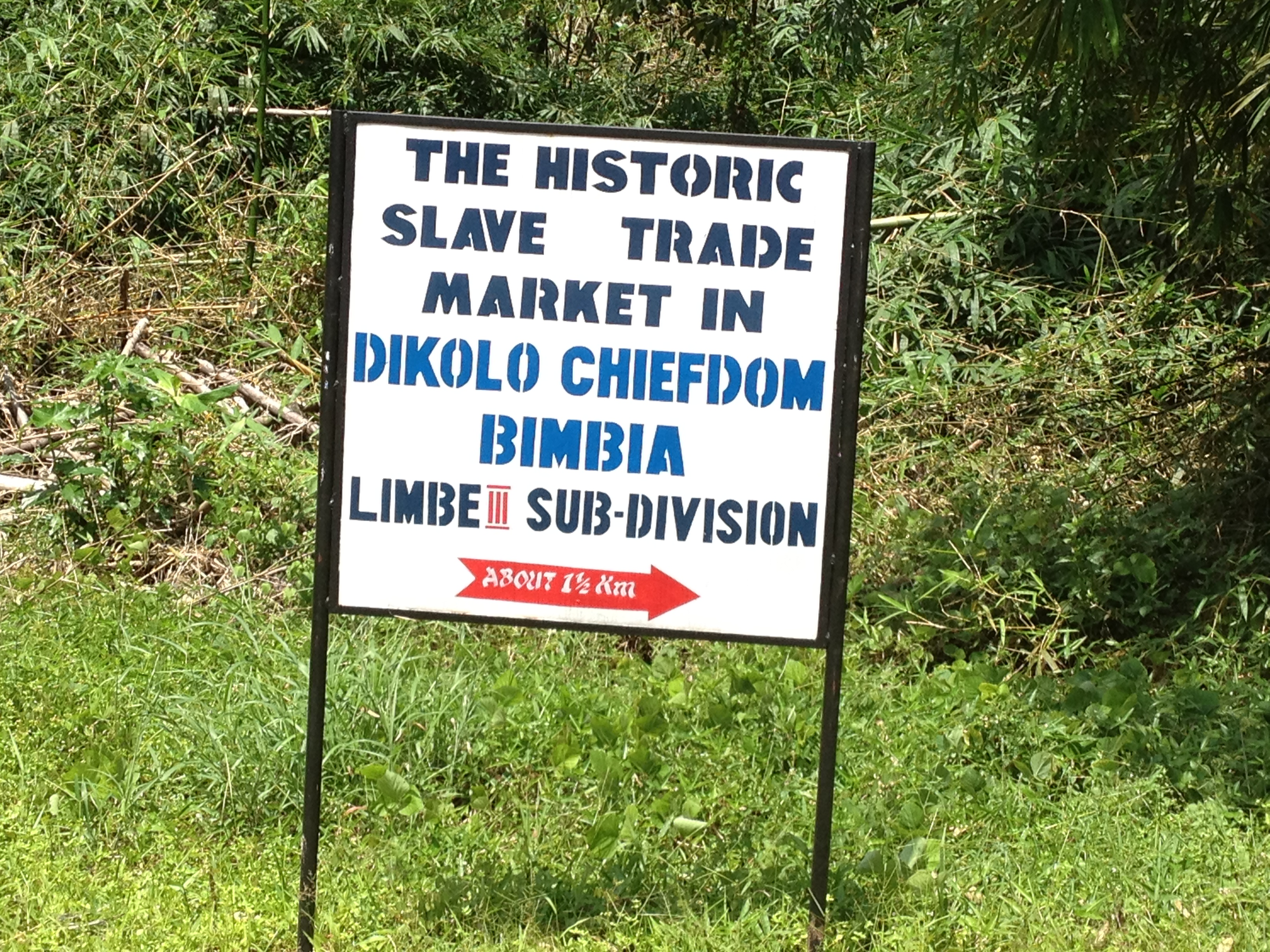 Sign Post to Bimbia Slave Port (Cameroon)